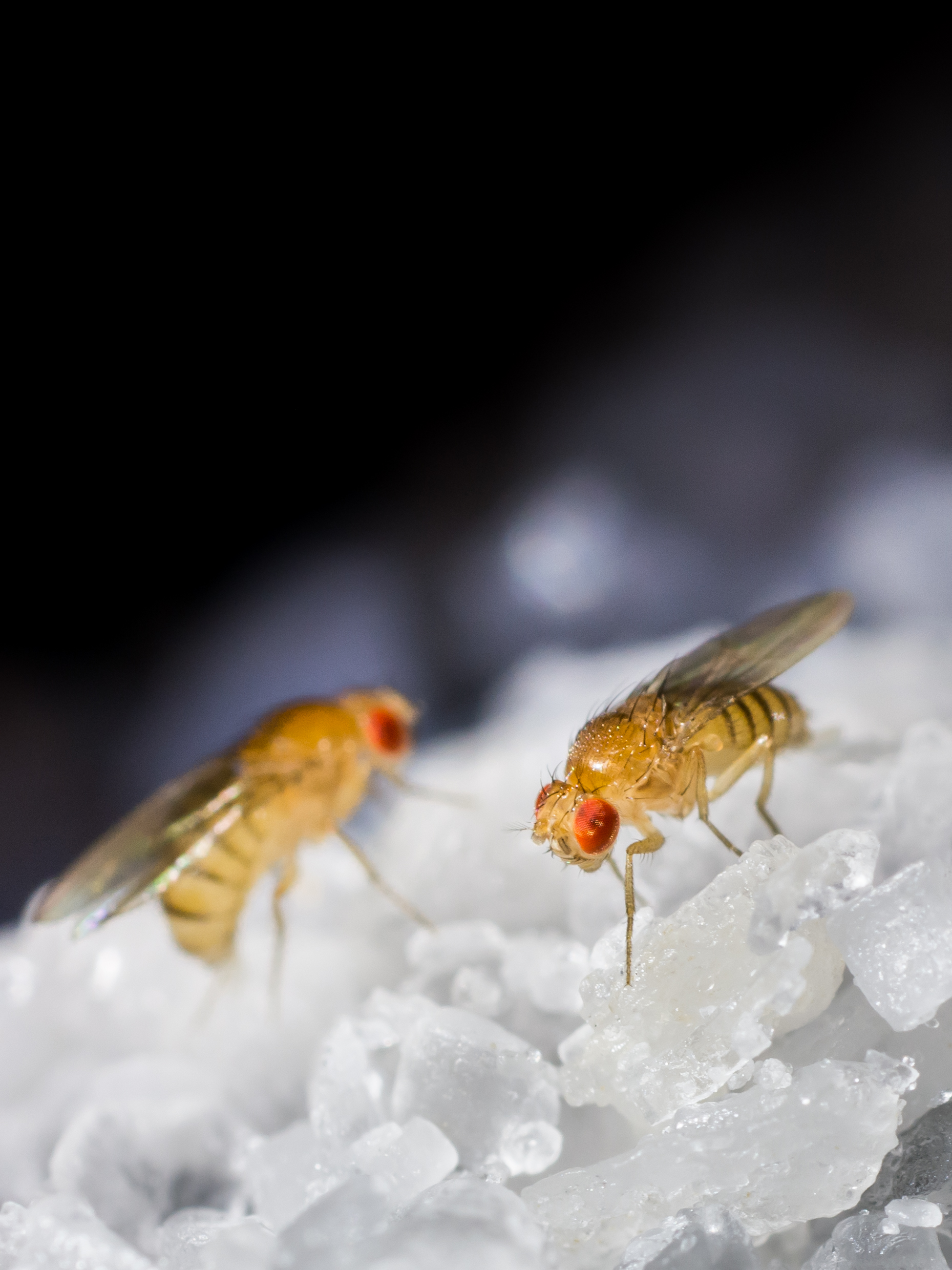 Female fruit flies (Drosophila melanogaster) explore a salt patch after they have mated. The process of mating changes the nutritional requirements of the female fruit fly, as it stimulates egg production. To meet this demand, females increase their intake of salt following mating, since salt intake supports egg production.